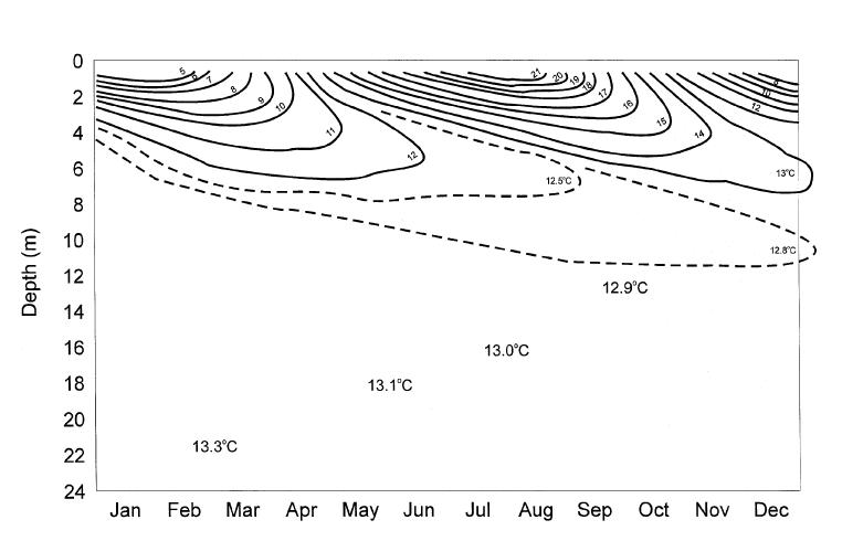 Diagram showing the temperature fluctuations in a soil near Belgrade, Serbia.